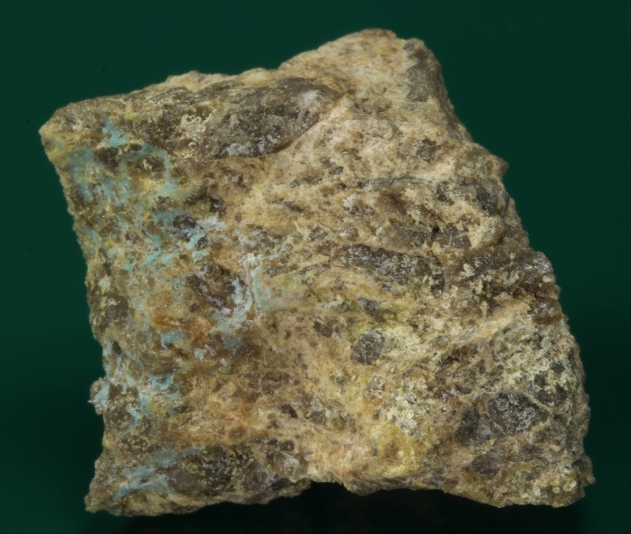 Smrkovecite Locality: Smrkovec (Schönficht), Slavkovský Les Mtn, Mariánské Lázně (Marienbad), Karlovy Vary Region, Czech Republic Dimensions: 2.5cm x 1.5cm x 1.0cm White, radial prismatic, micro-crystals of smrkovecite, from the type locality, on fine-grained, granular, yellow-brown petitjeanite. This is a pair of rare bismuth phosphates from the oxidized portion of the polymetallic deposits in the Karlovy Vary region of the Czech Republic. Ex. Paulo Matioli collection.